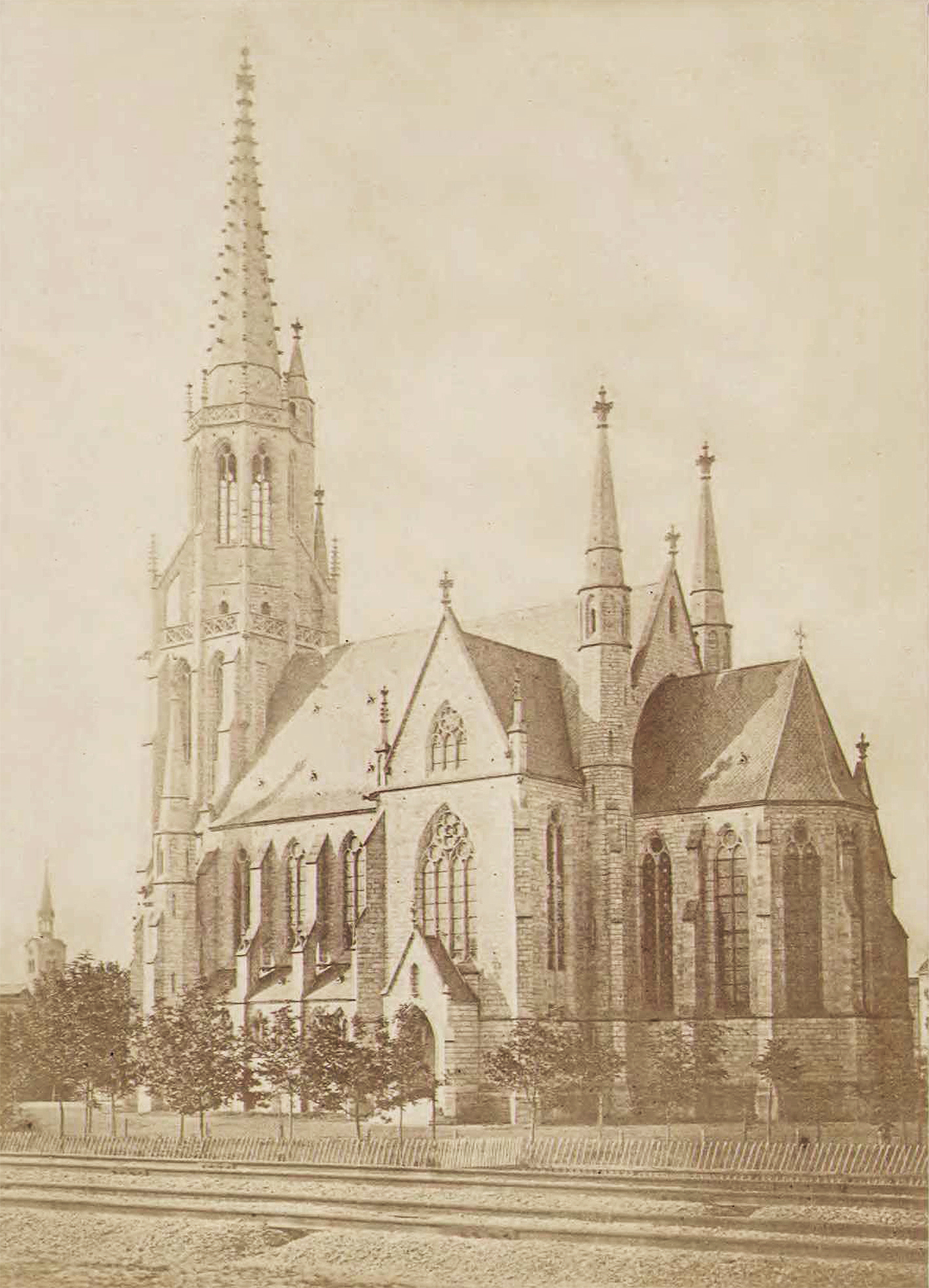 St. Mary's Church in Katowice (built from 1862 to 1870)